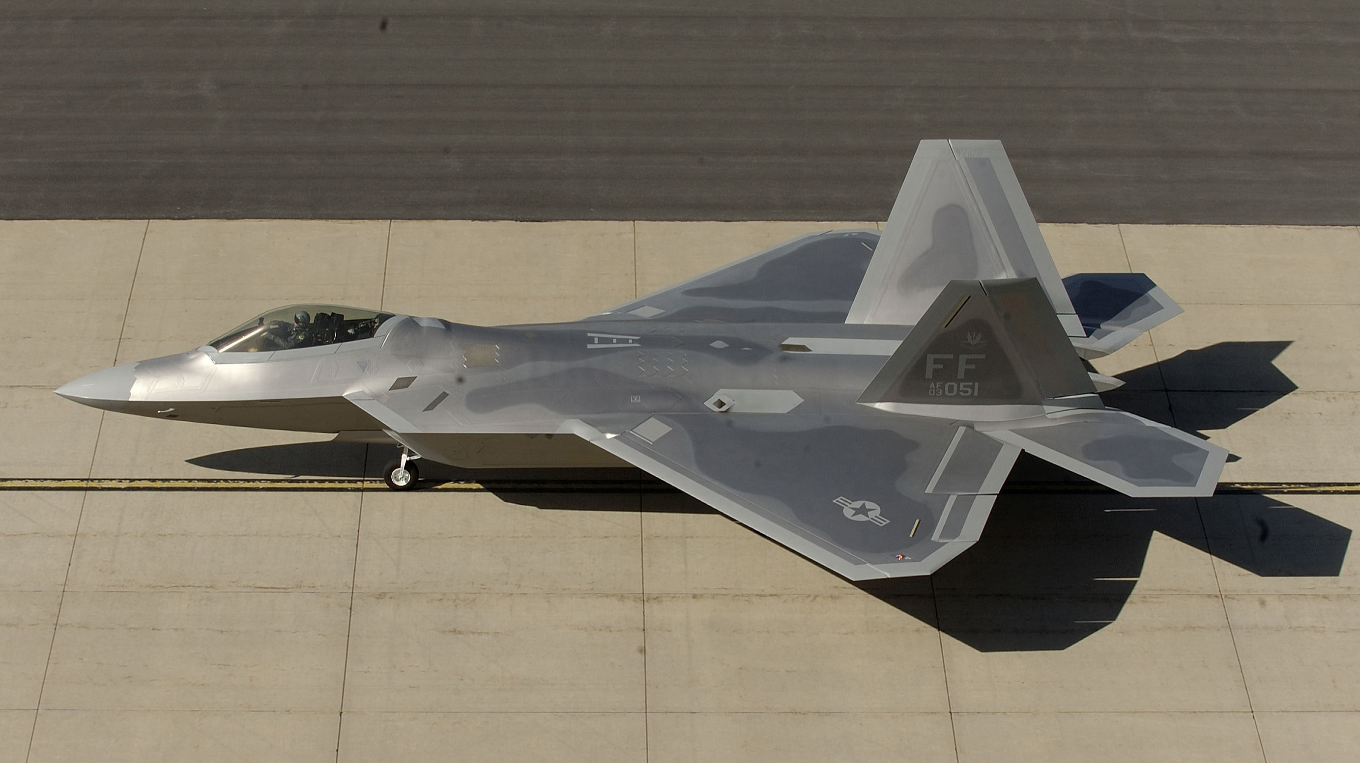 HILL AIR FORCE BASE, Utah - An F/A-22 Raptor taxis after landing here. The jet, from the 27th Fighter Squadron at Langley Air Force Base, Va., deployed here Oct. 15 for the next-generation fighter's first deployment for live weapons bomb training exercise.